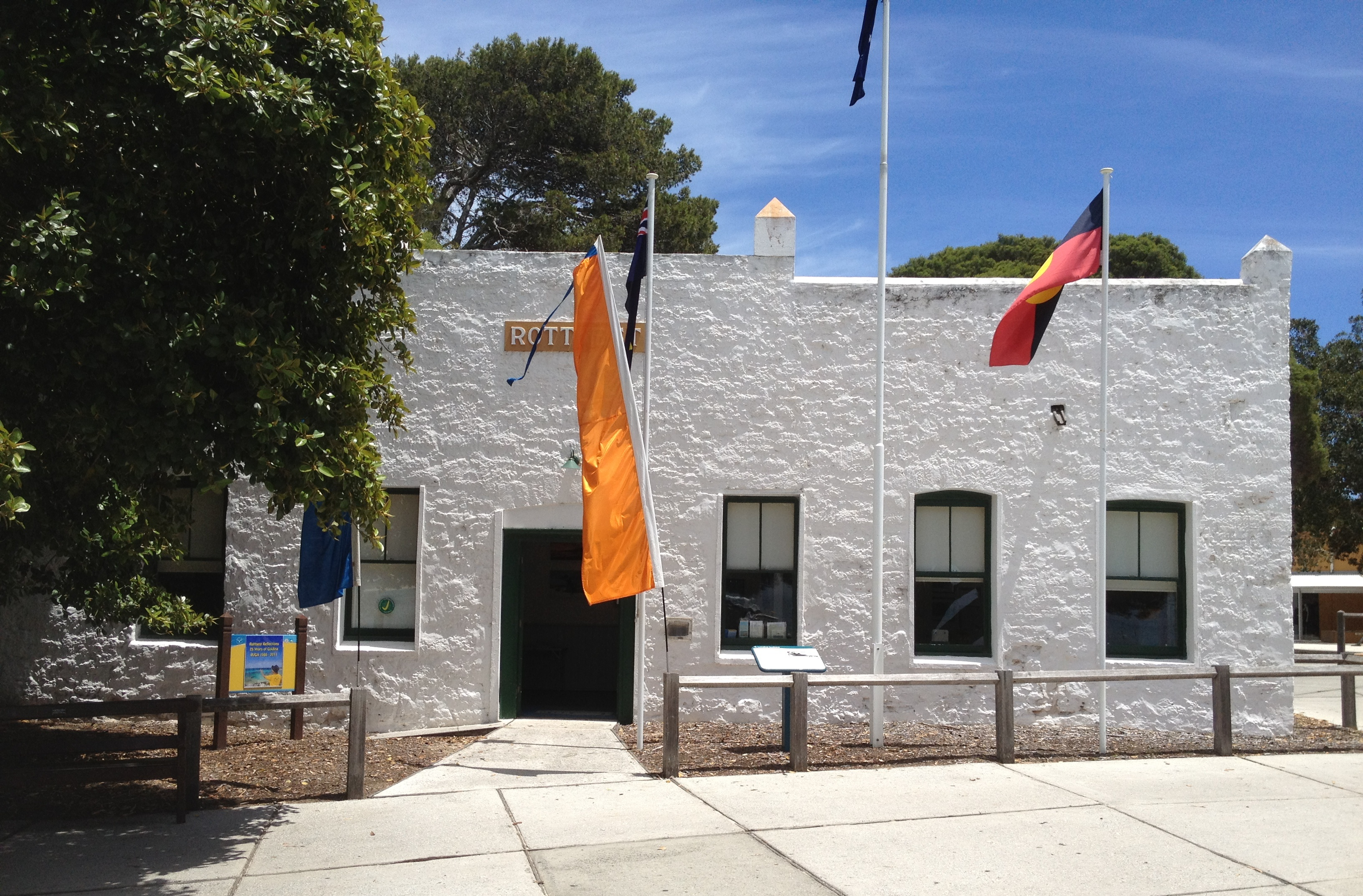 Rottnest saltstore